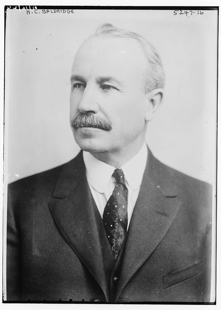 Portrait of H. C. Baldridge